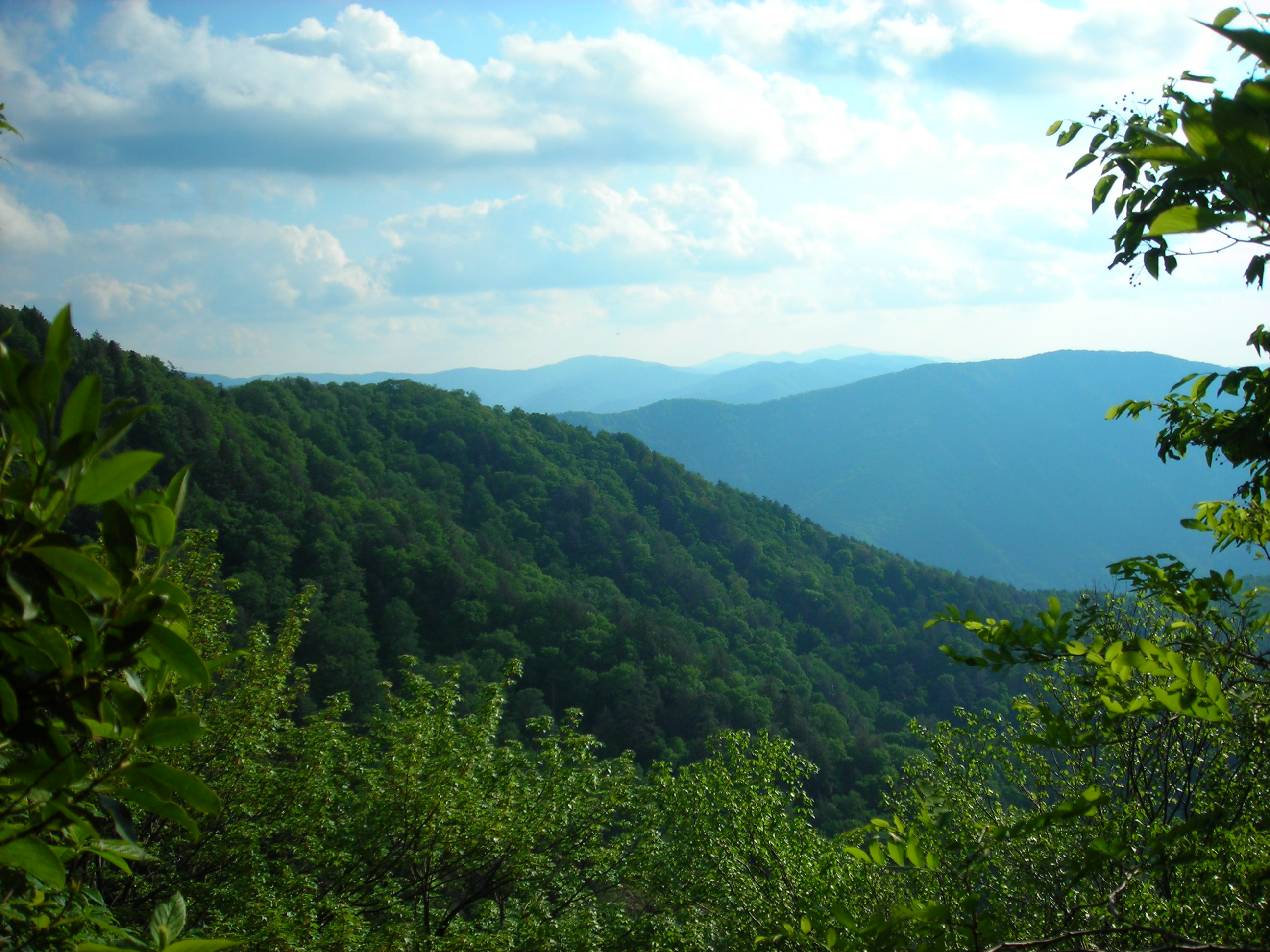 Near to its junction with the Rainbow Falls Trail, the Bullhead Trail offers a one mile stretch of scenic views into the valleys below. Photo taken by myself, Scott Basford, on June 3, 2006.